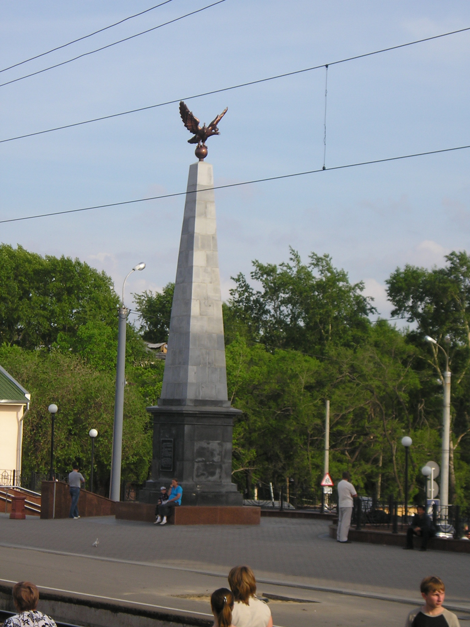 Obelisk on Khabarovsk I station in memory of the participation of the troopses at building Ussuriyskaya railway